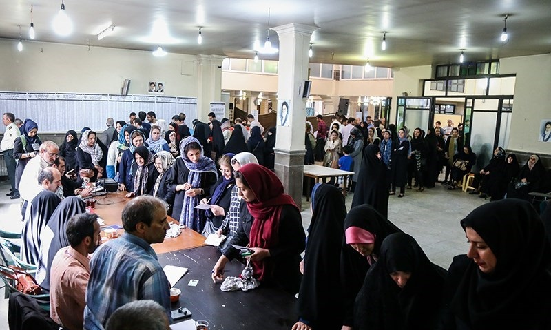 People casting their votes in 2017 Iranian elections